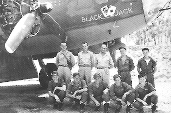 Crew of Boeing B-17F Fortress 41-24521, "Black Jack", 63d Bomb Squadron, 43d Bomb Group after flying their last mission on 14 February 1943. The fixed machine gun in the lower nose was fitted in the field. (USAAF Photo)